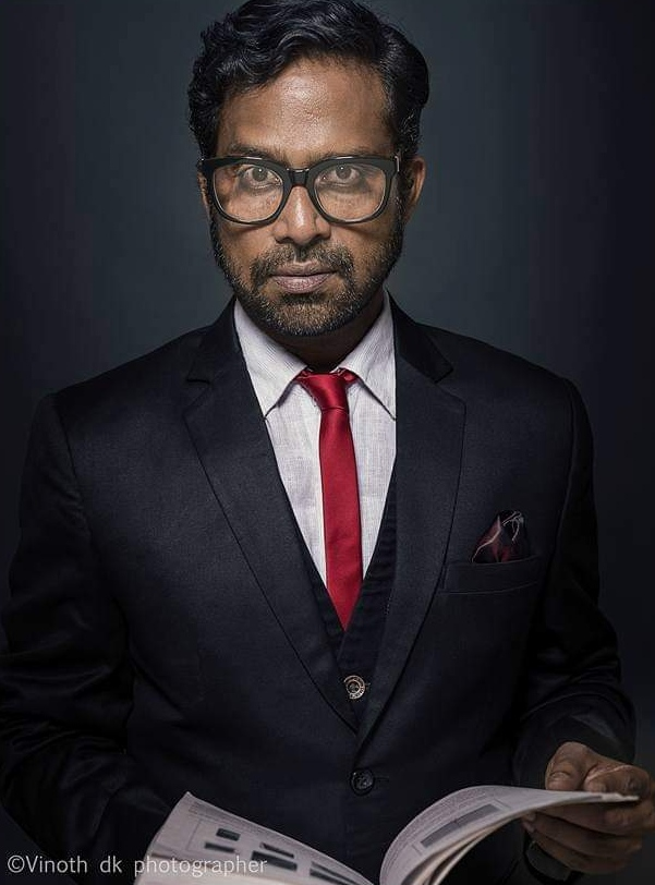 Guru Somasundaram Click by Vinoth DK